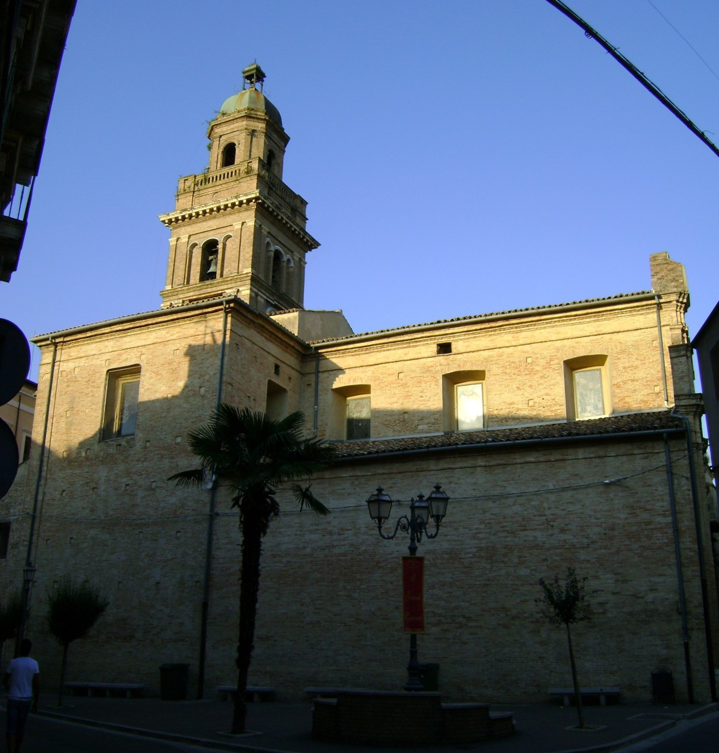 The left side of the church of San Salvatore, Casalbordino, province of Chieti, Abruzzo